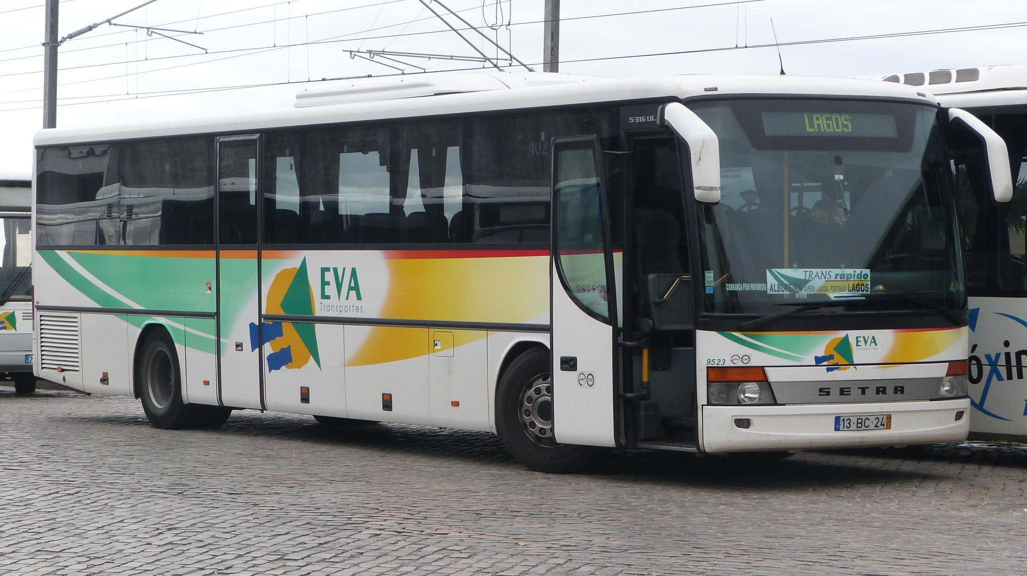 Setra Bus for Eva Transportes. Setra is a Neu-Ulm, Germany-based manufacturer of commercial buses and touring coaches, which has been a subsidiary of Daimler AG since 1995